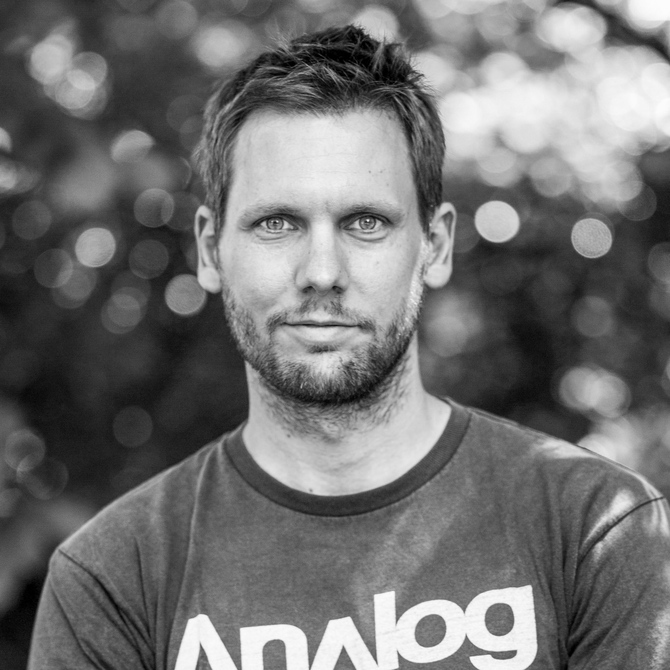 Gergely Boszormenyi Nagy, entrepreneur and founder of Brain Bar in Budapest, 2019